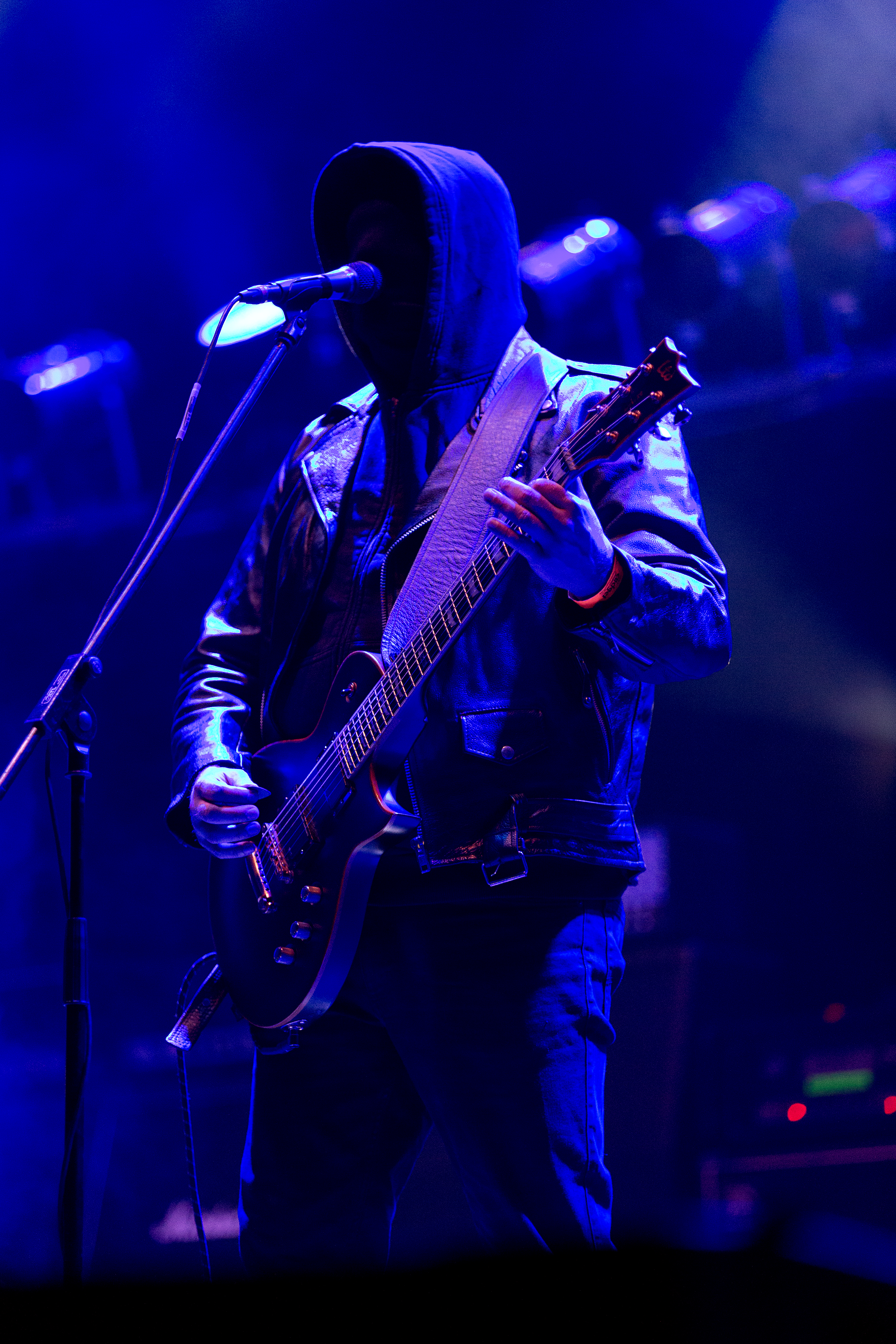 The Polish black metal band Mgła at the Party.San Metal Open Air 2016 in Obermehler-Schlotheim/Germany